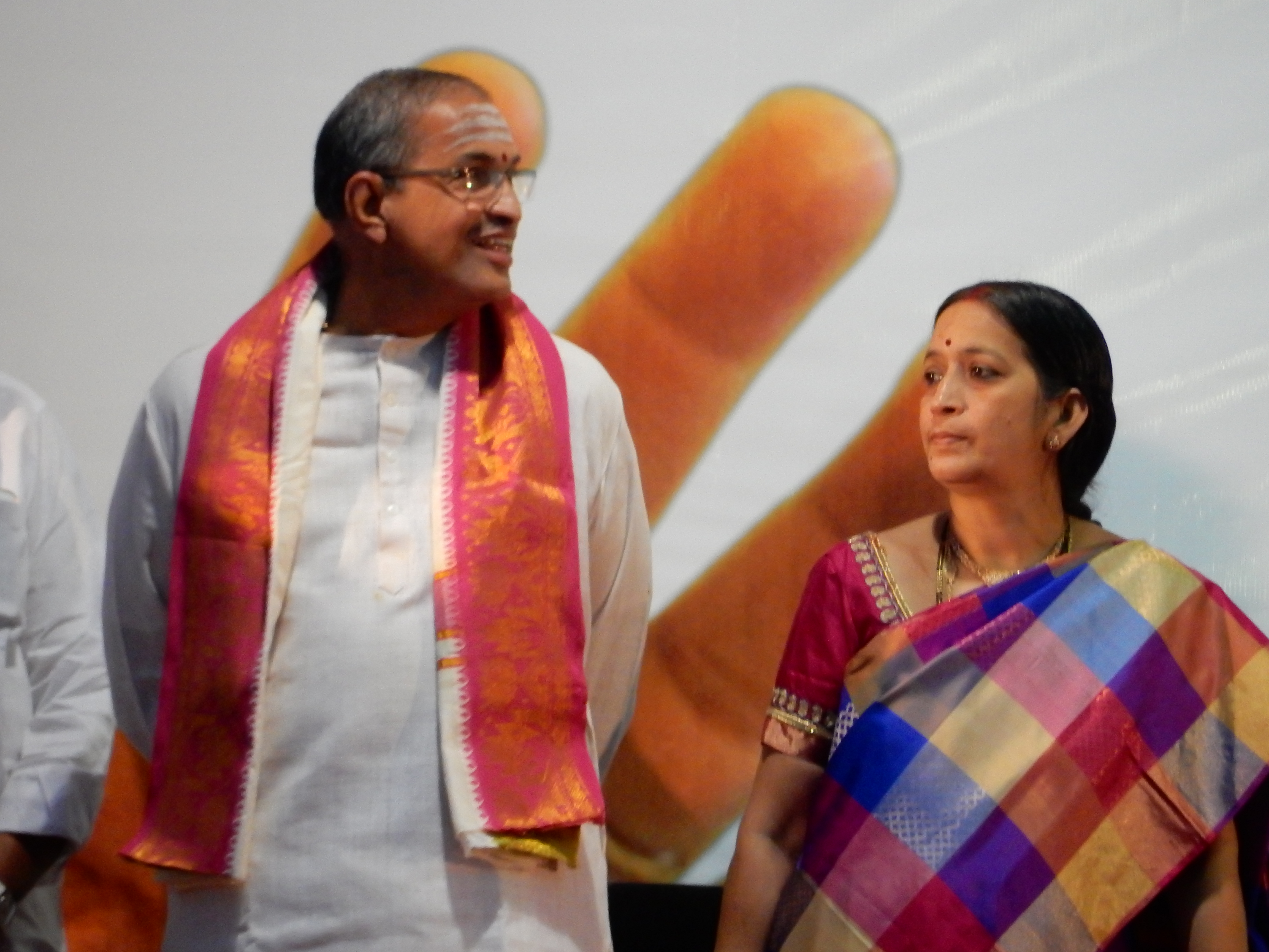 Chaganti Koteswara Rao with his wife in August 2015